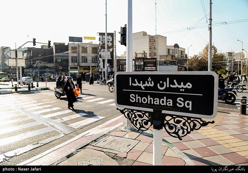 A fotograph of the Shuhada Square in Tehran, capital of Iran